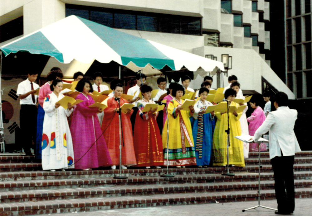 Korean Song Performance at Civic Plaza, 1989, Summerfest